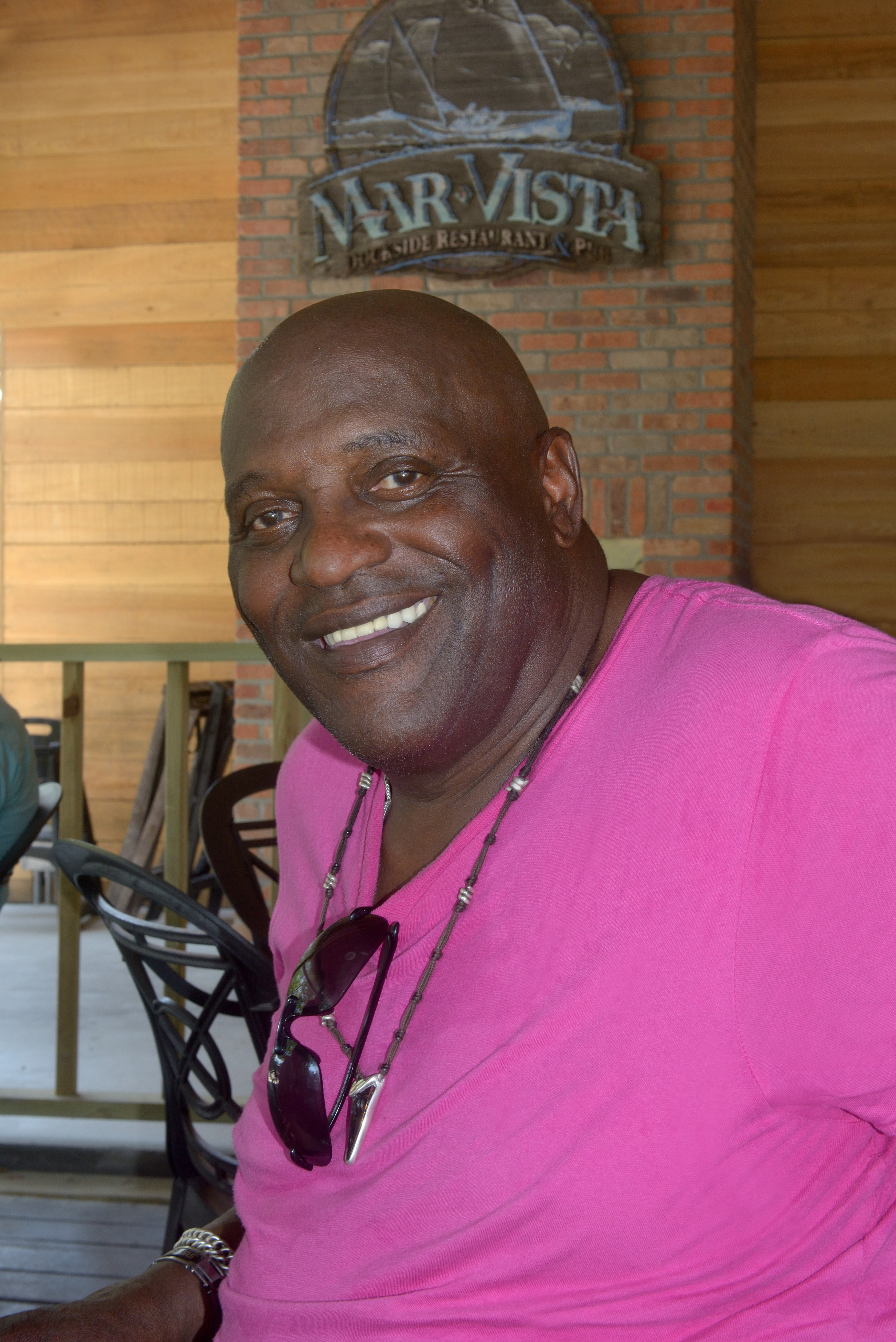 Sherman White American football player in Florida